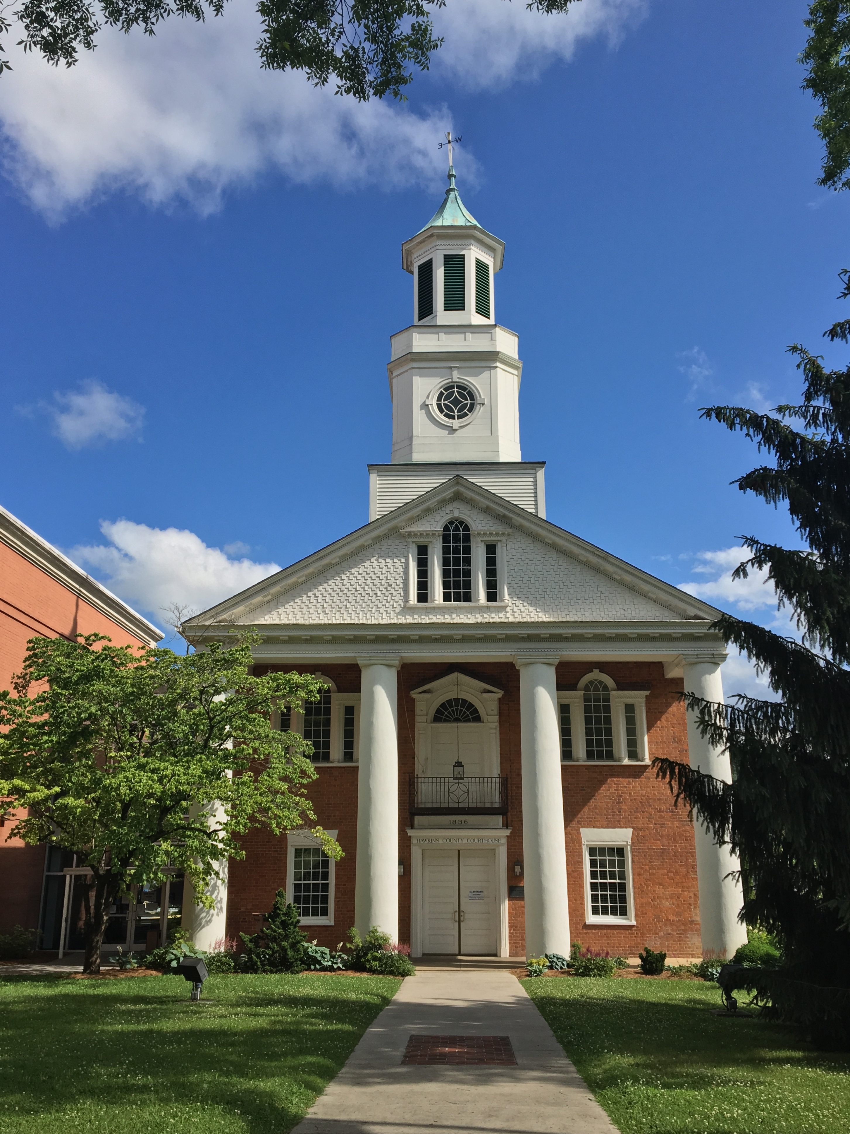 The Hawkins County Courthouse in Rogersville, Tennessee in June 2020. It is apart of the Rogersville Historic District.